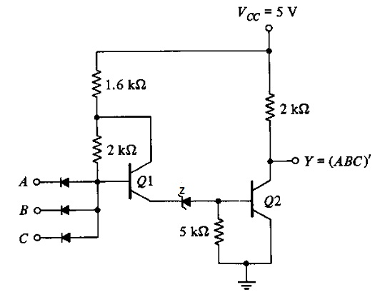 It is a circuit diagram i made myself using MS paint.